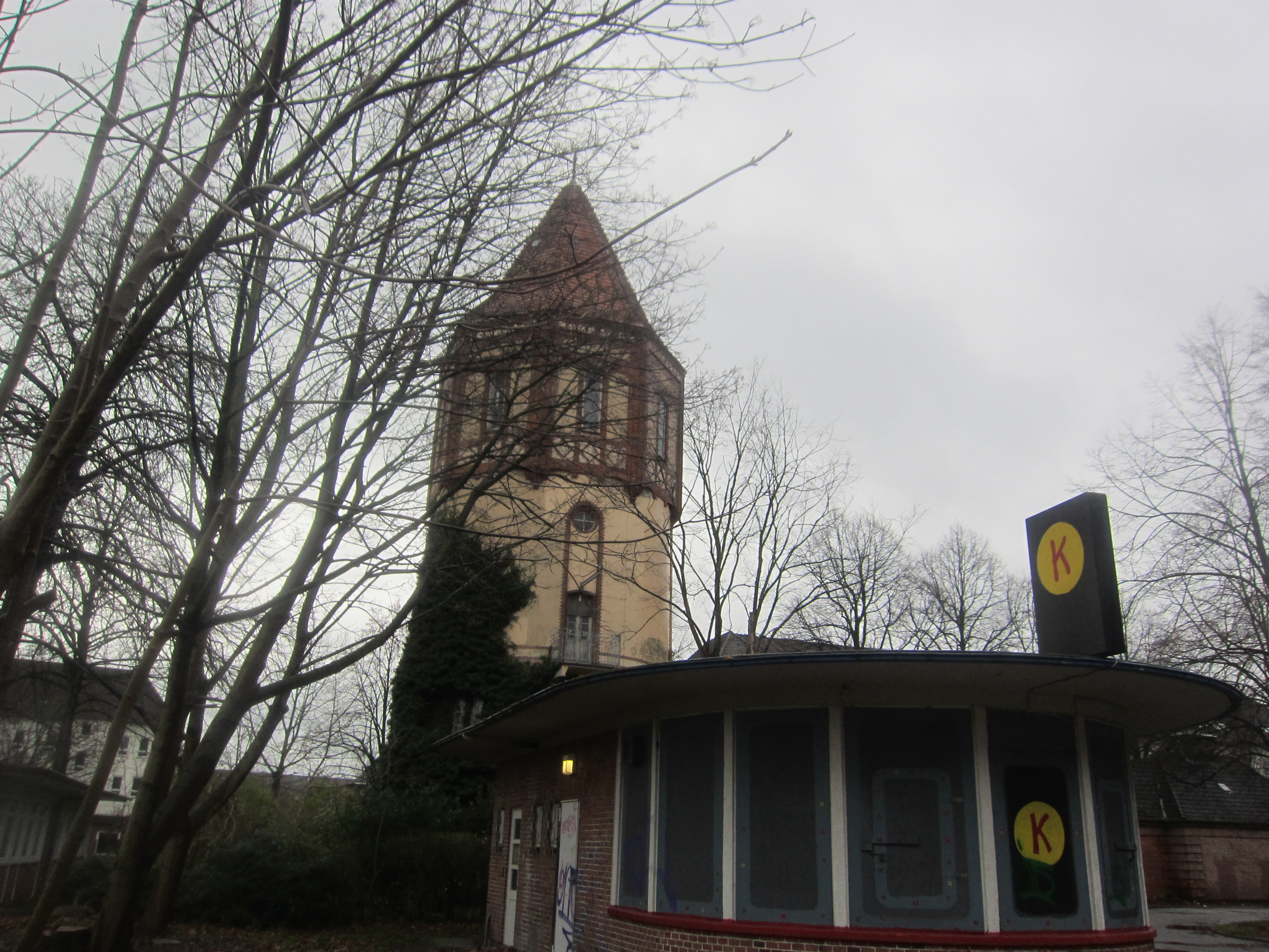 Water tower in Kiel-Wik behind the bus stop "Wik, Herthastraße"